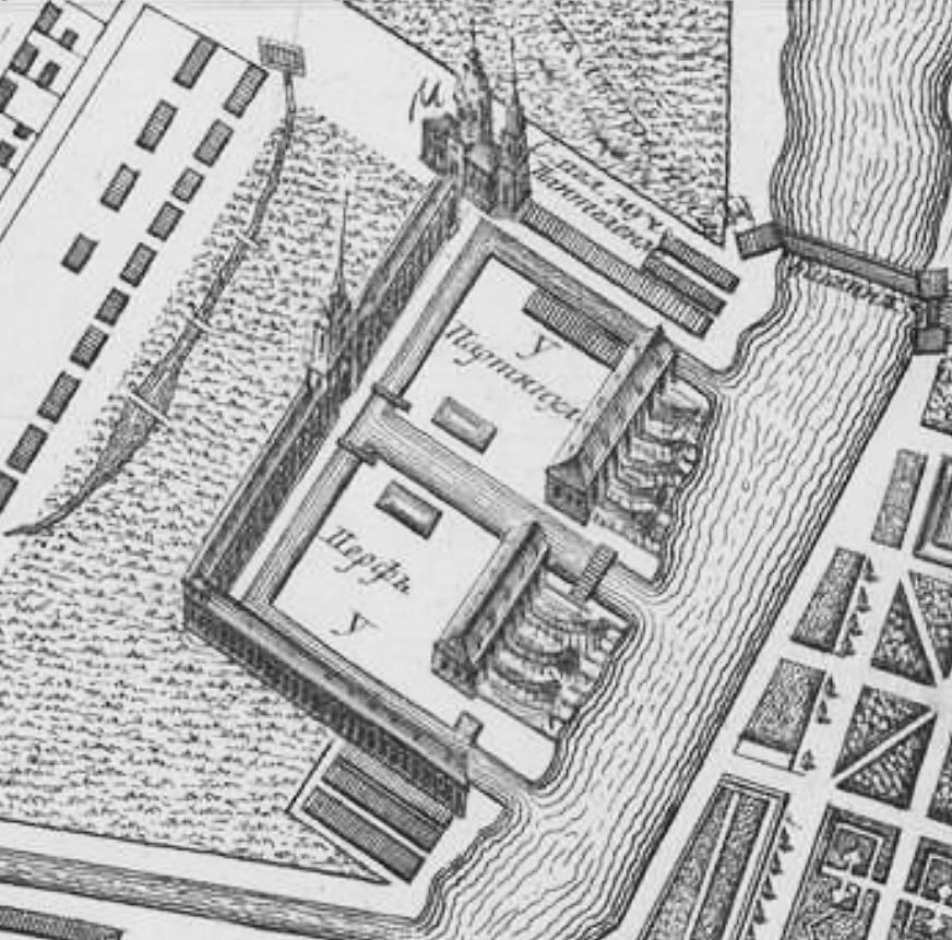 "Particular Shipyard" at the Truscott Map of St-Petersburg 1753